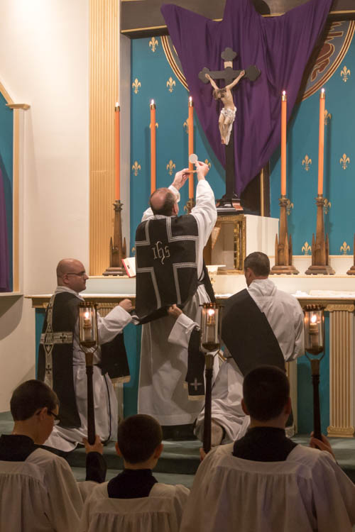 Elevation at a Solemn Mass of the Presanctified, celebrated in the 1954 rite. This Mass was offered on a Good Friday in 2017, by Father Robert C. Pasley at Mater Ecclesiæ Catholic Church in Berlin NJ.